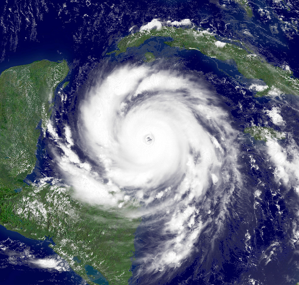 Year 2007 Storm Events Data Elements: Dean is approaching category 5 status. Observation Device: GOES-12 1 km visible imagery. Visualization Date: August 20, 2007 13:31:28 Courtesy NOAA/NESDIS